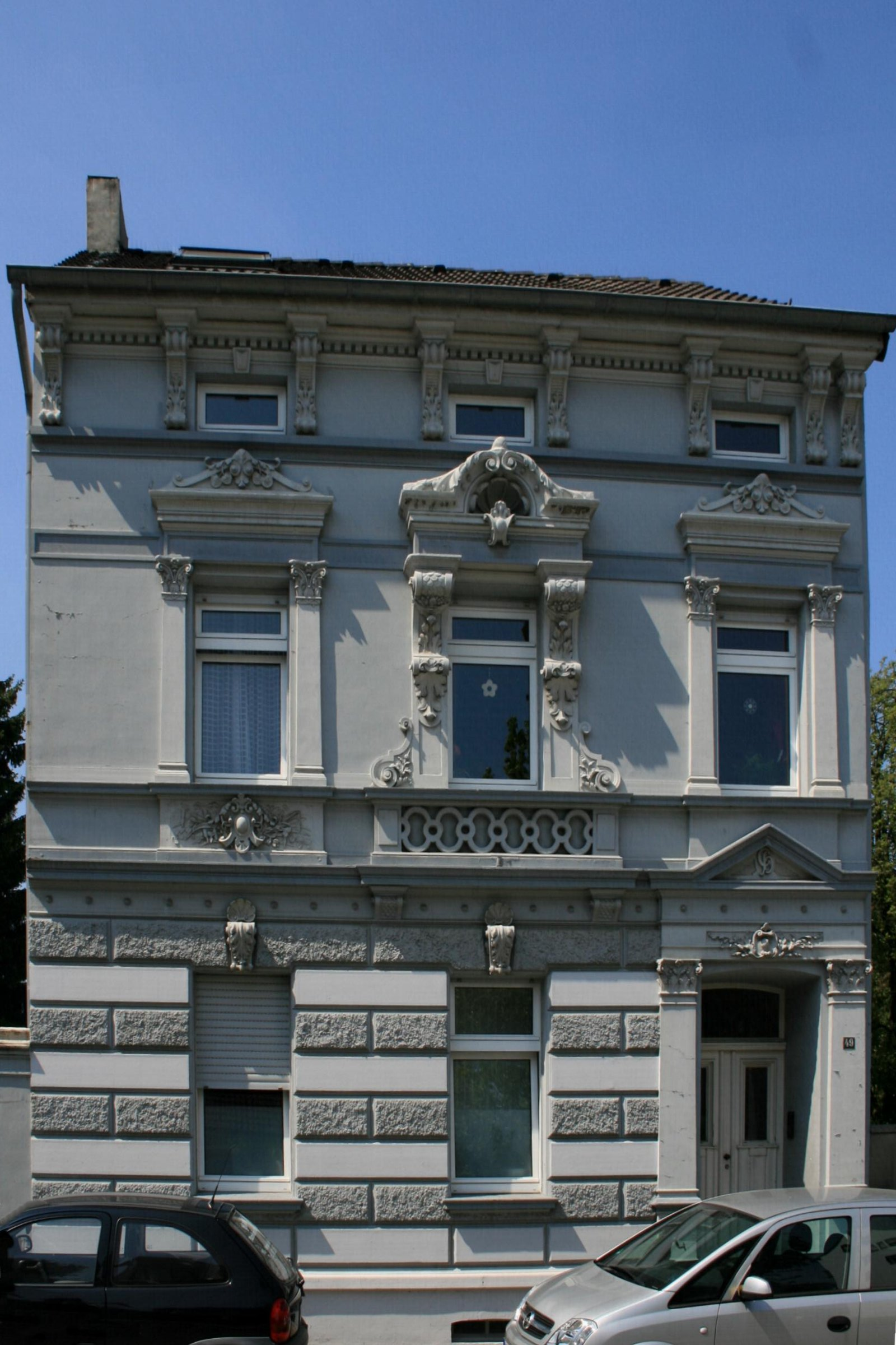 Cultural heritage monument No. Sch 024 in Mönchengladbach